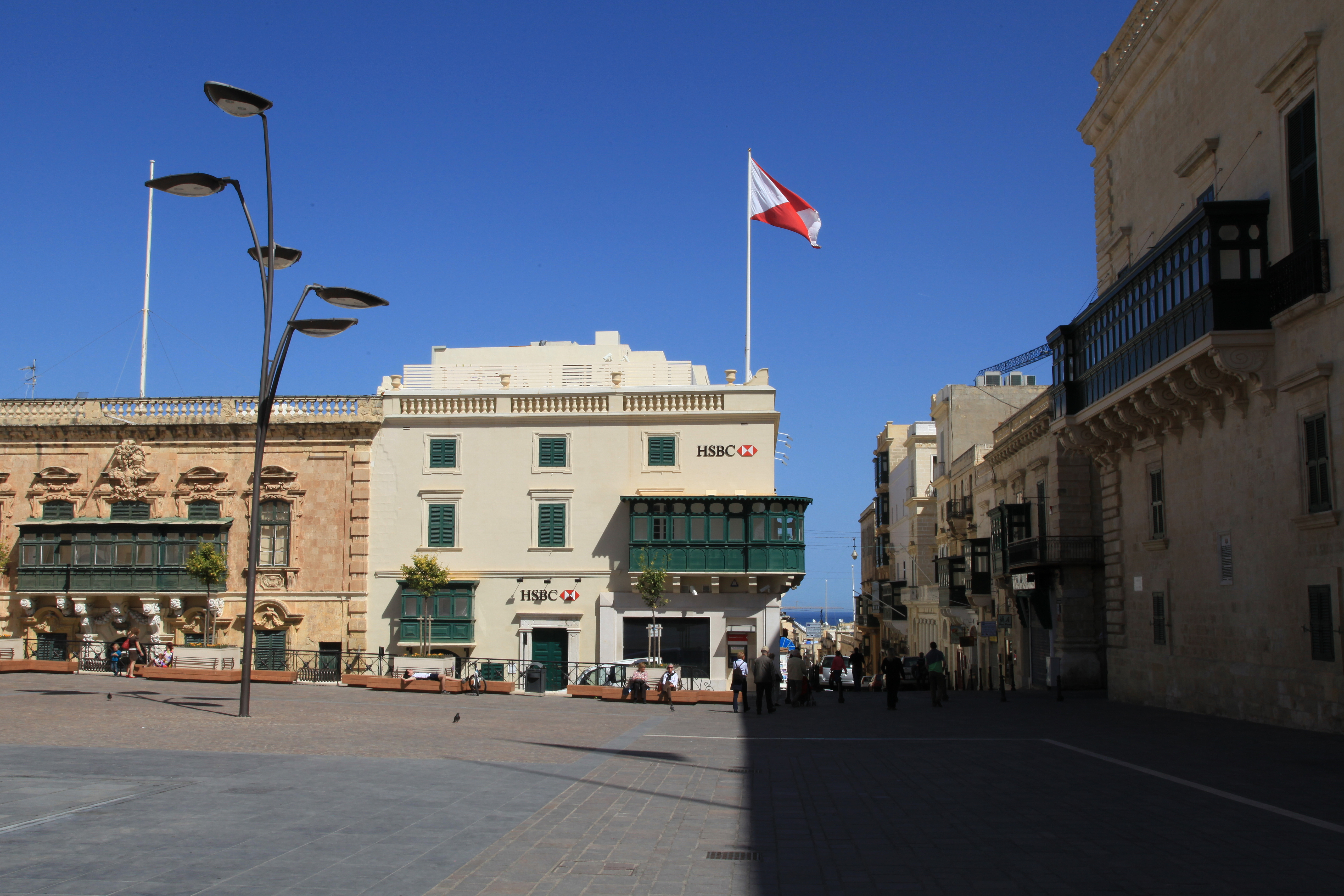 Misraħ San Ġorġ at Triq ir-Repubblika and Triq l-Arcisqof in Valletta, Malta